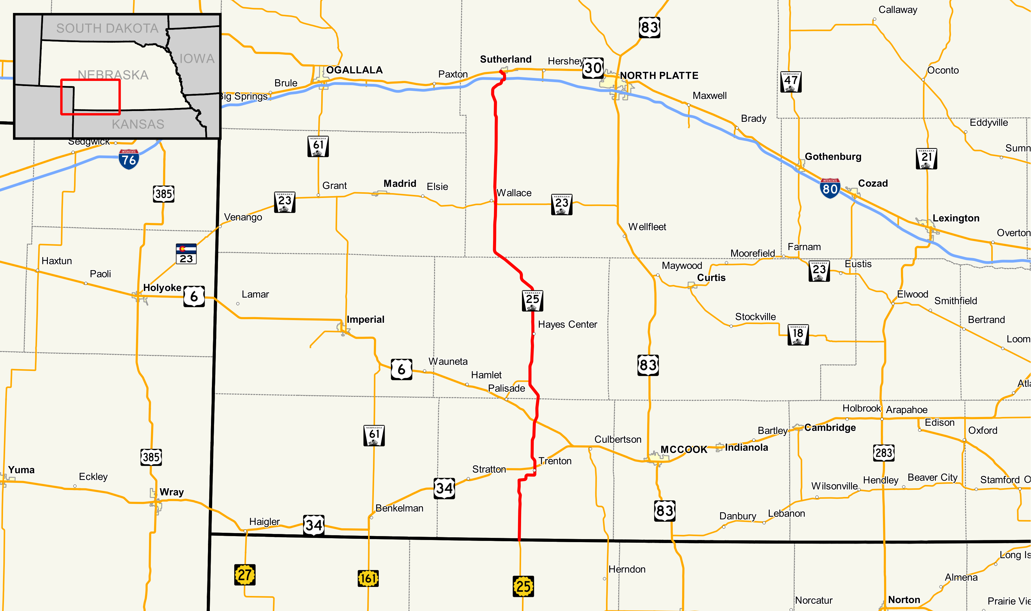 Map of Nebraska Highway 25 Data Sources: Nebraska Highways - - Dec 2016 Nebraska County Boundaries - - Dec 2016 Nebraska City Boundaries - - Dec 2016 This PNG graphic was created with QGIS